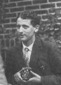 George Uhlenbeck, Hendrik Kramers, and Samuel Goudsmit around 1928 in Ann Arbor. Uhlenbeck and Goudsmit proposed the idea of electron spins three years earlier when they were studying in Leiden with Paul Ehrenfest. George Eugene Uhlenbeck (* 6. Dezember 1900 in Batavia, Indonesien; † 31. Oktober 1988 in Boulder, USA), Hendrik Anthony Kramers, (* 17. Dezember 1894 in Rotterdam; † 24. April 1952 in Oegstgeest, Niederlande) Samuel Abraham Goudschmidt (* 11. Juli 1902 in Den Haag, Niederlande; † 4. Dezember 1978 in Reno, Nevada, USA)